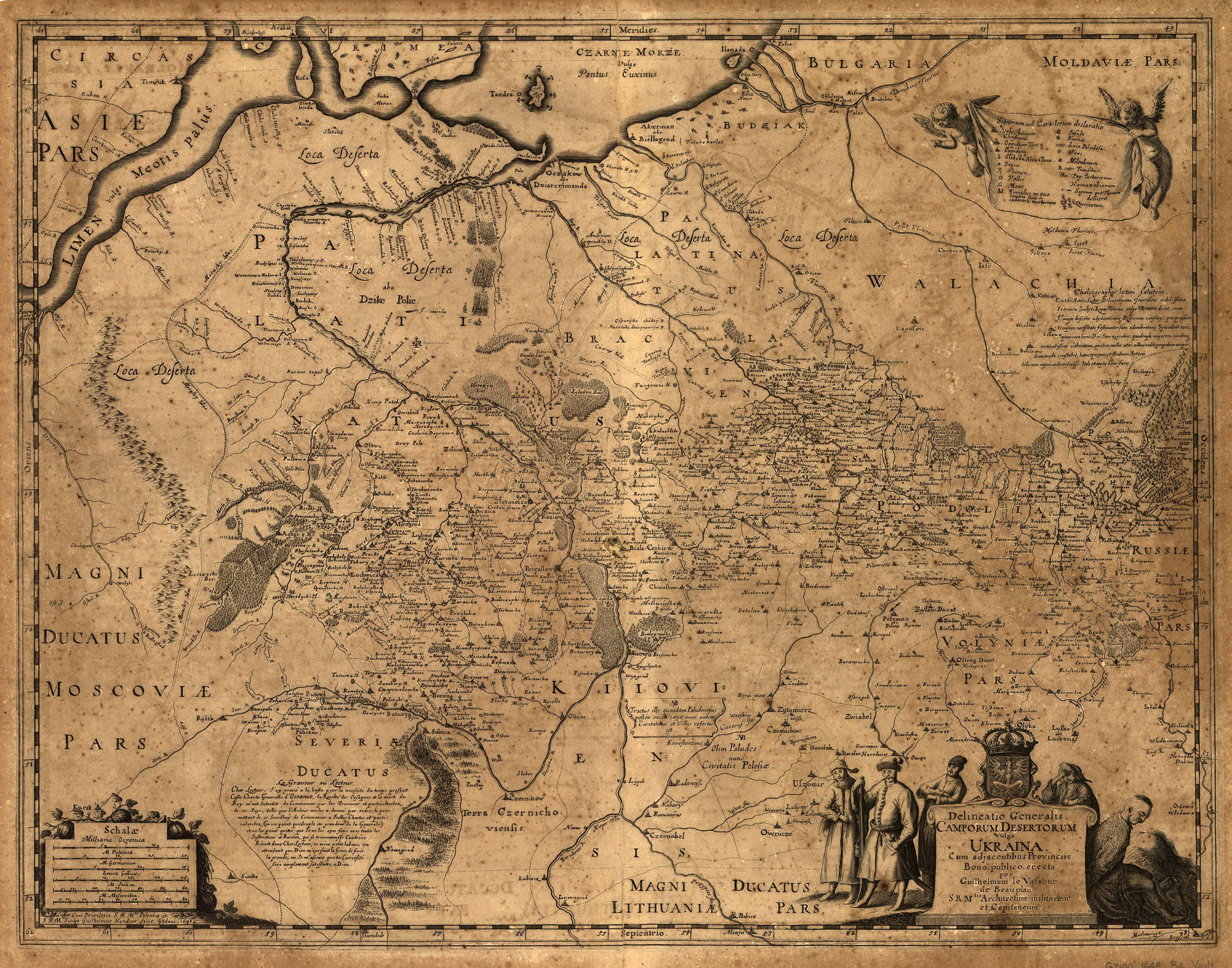 A 1648 map of Ukraine created by Guillaume le Vasseur de Beauplan and published by Villem Gondius.